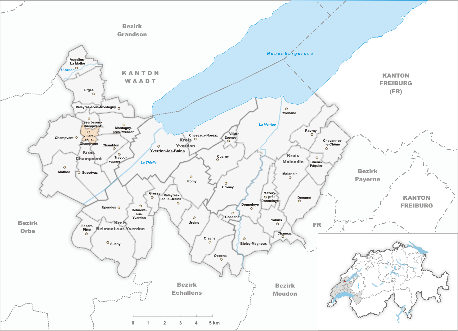 Municipality Villars-sous-Champvent